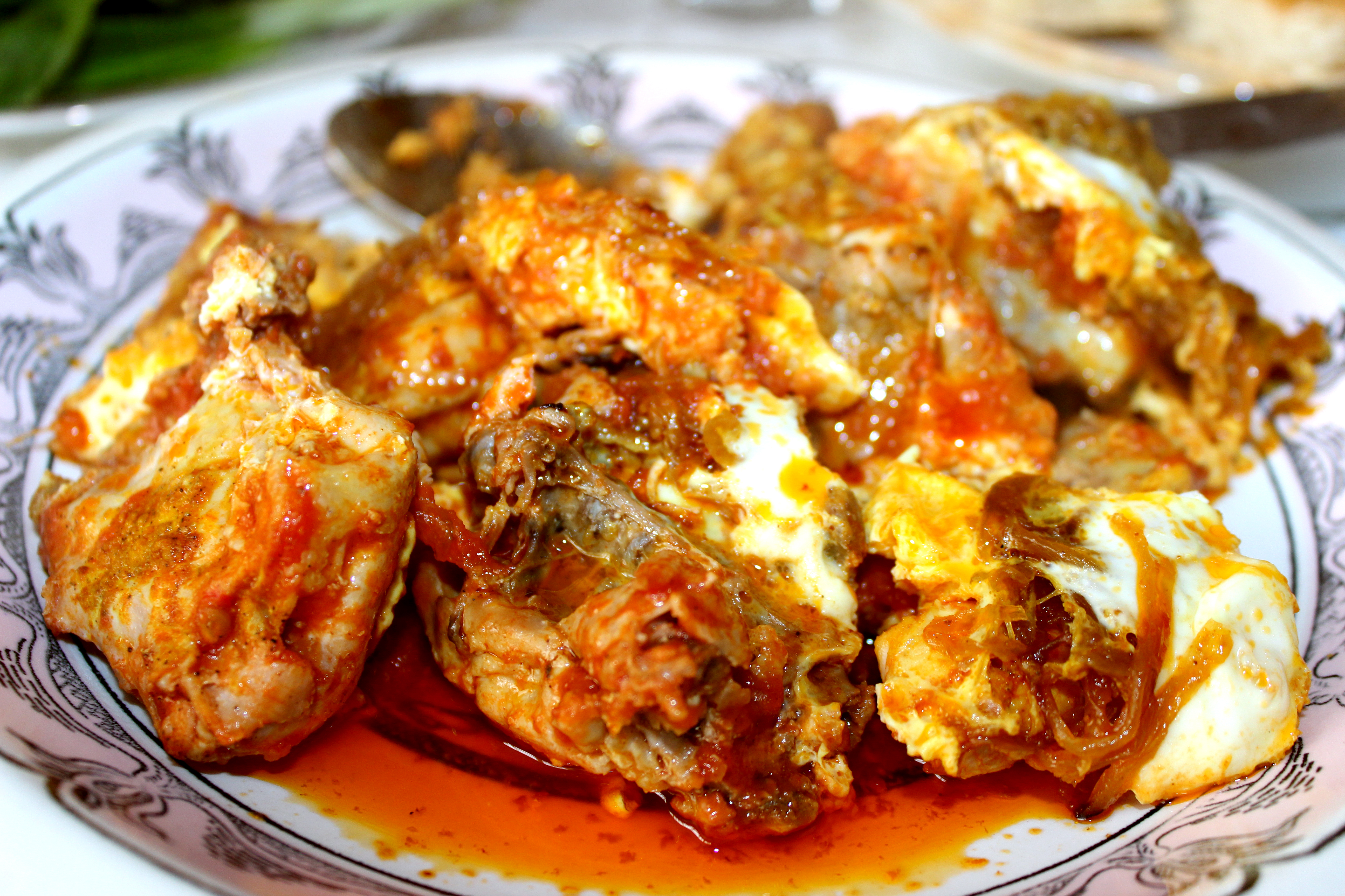 Çığırtma